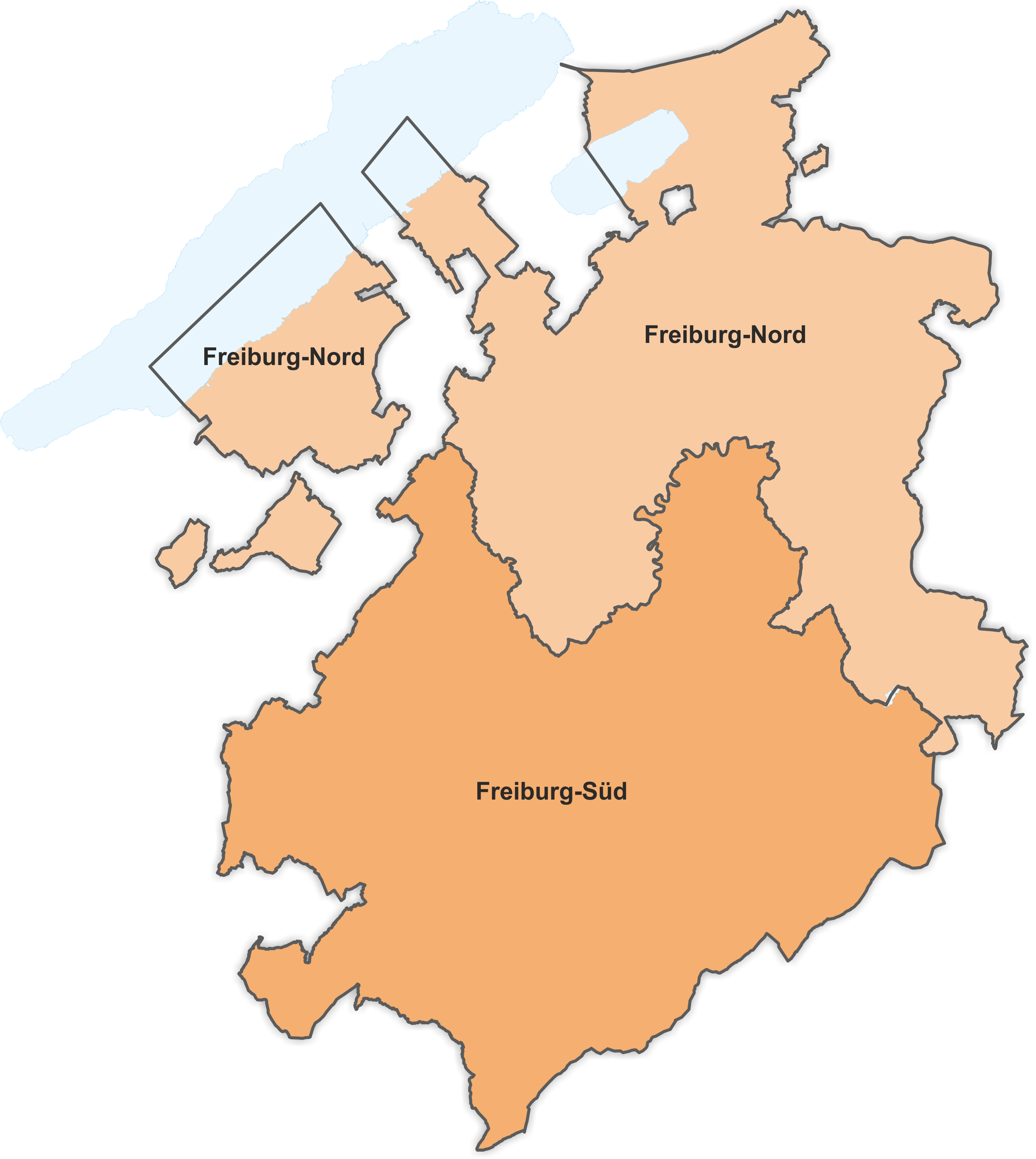 National council constituencies in the canton of Fribourg from 1851 to 1869